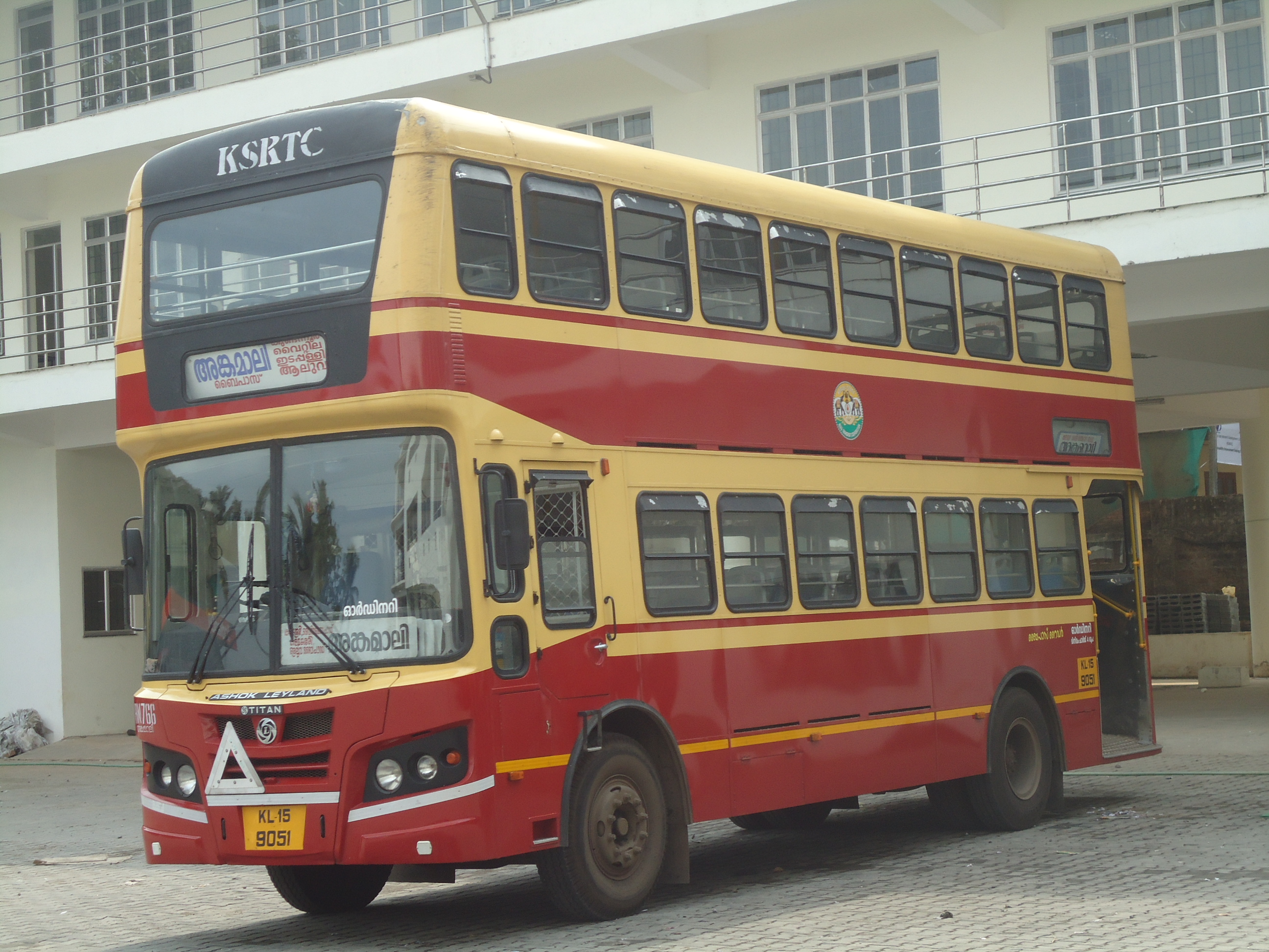 A double decker bus at angamaly KSRTC Bus Stand